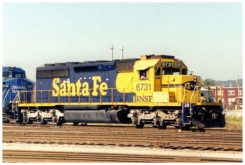 Burlington Northern Santa Fe 6731, EMD SD40-2